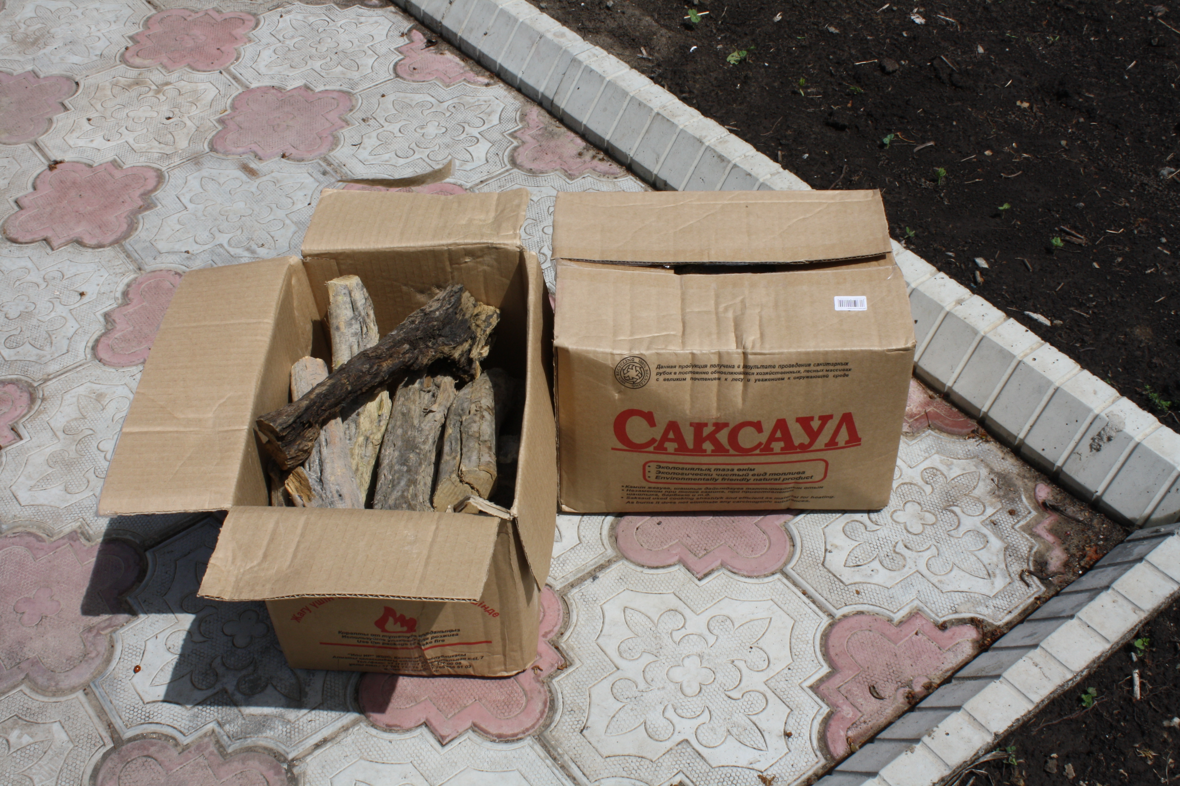 The saxaul box and saxaul prepared for fire (for kebab)